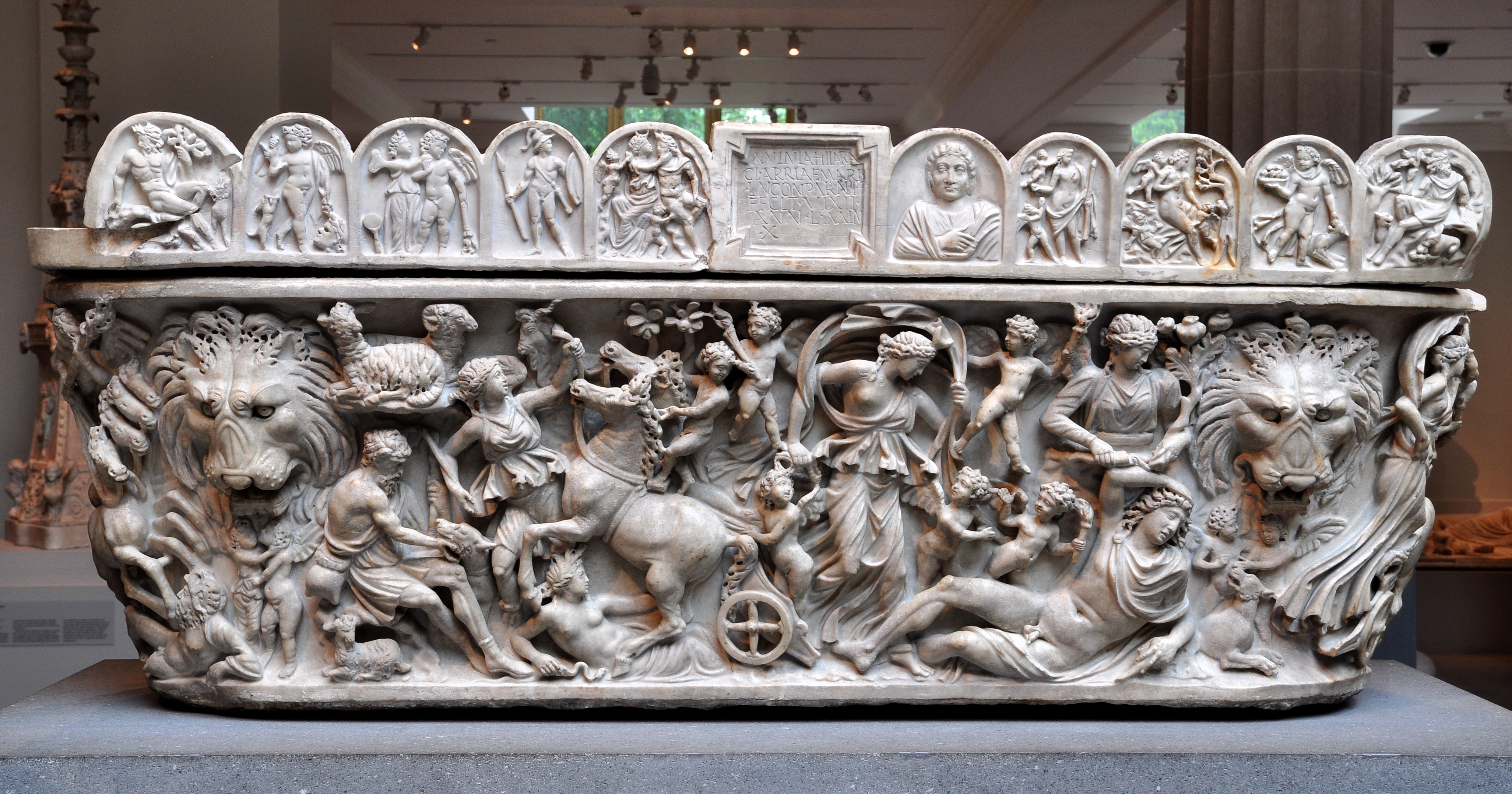 Roman sarcophagus showing Selene approaching Endymion. Ca. 200-220 AD. Metropolitan Museum, New York. Photo by Mont Allen.